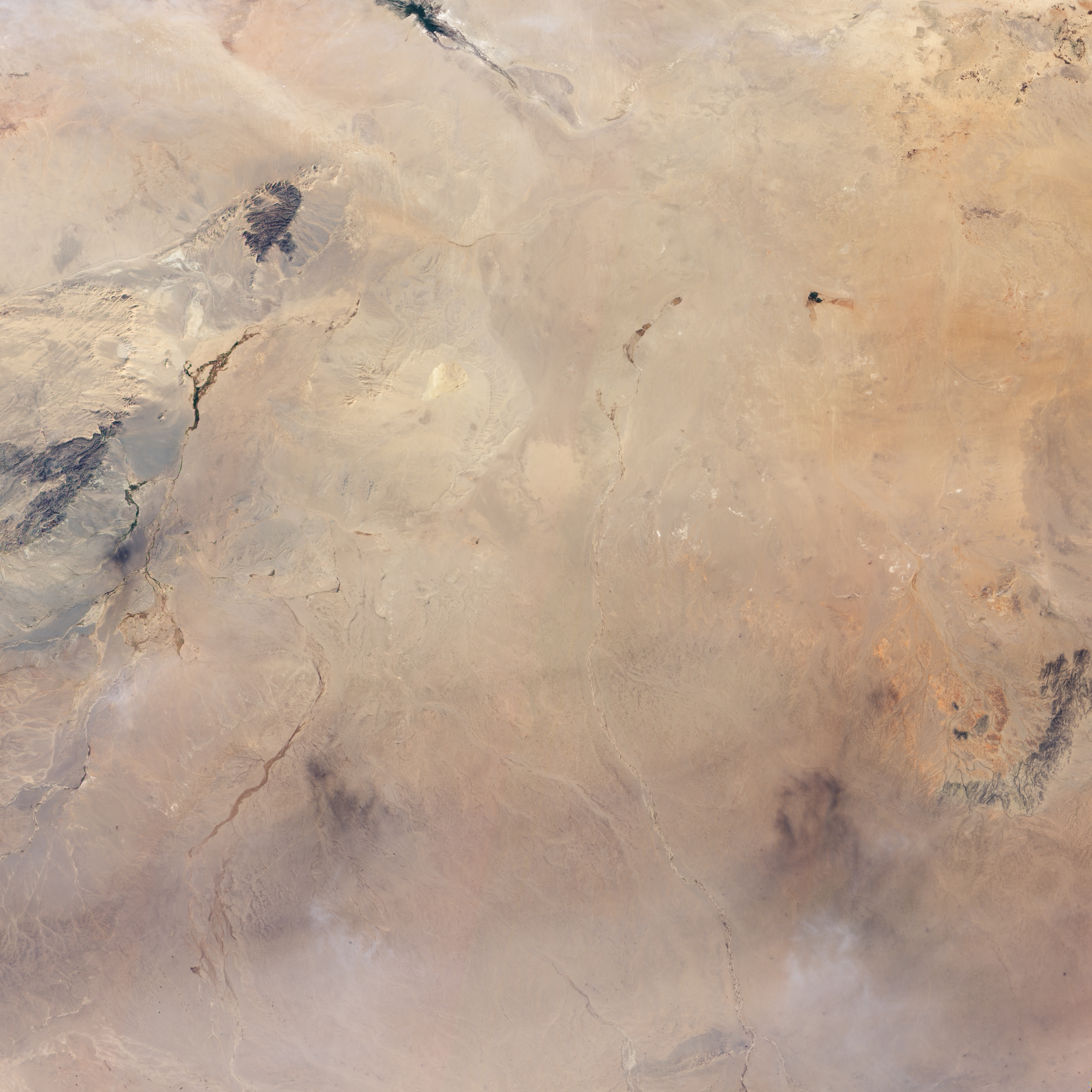 In this image of the Tabun Khara Obo impact crater, sunlight shines from the south-east, leaving the northern and western slopes in shadow. The crater’s rim rises some 20 to 30 meters above the crater bottom. The dark, irregularly shaped area in the lower right corner of the image results from vegetation, likely occurring along a river channel. For the most part, the scene shows an earth-toned, arid landscape.